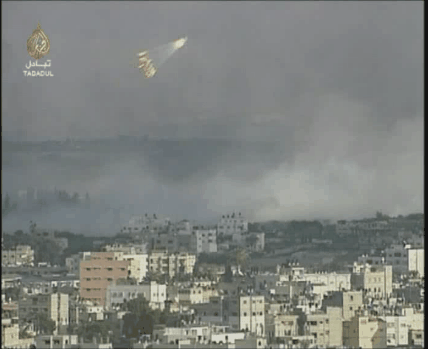 Israeli Air Force, dropping a white phosphorus cluster bomb on a populated area in Gaza during Operation "Cast Lead", December 2008/January 2009